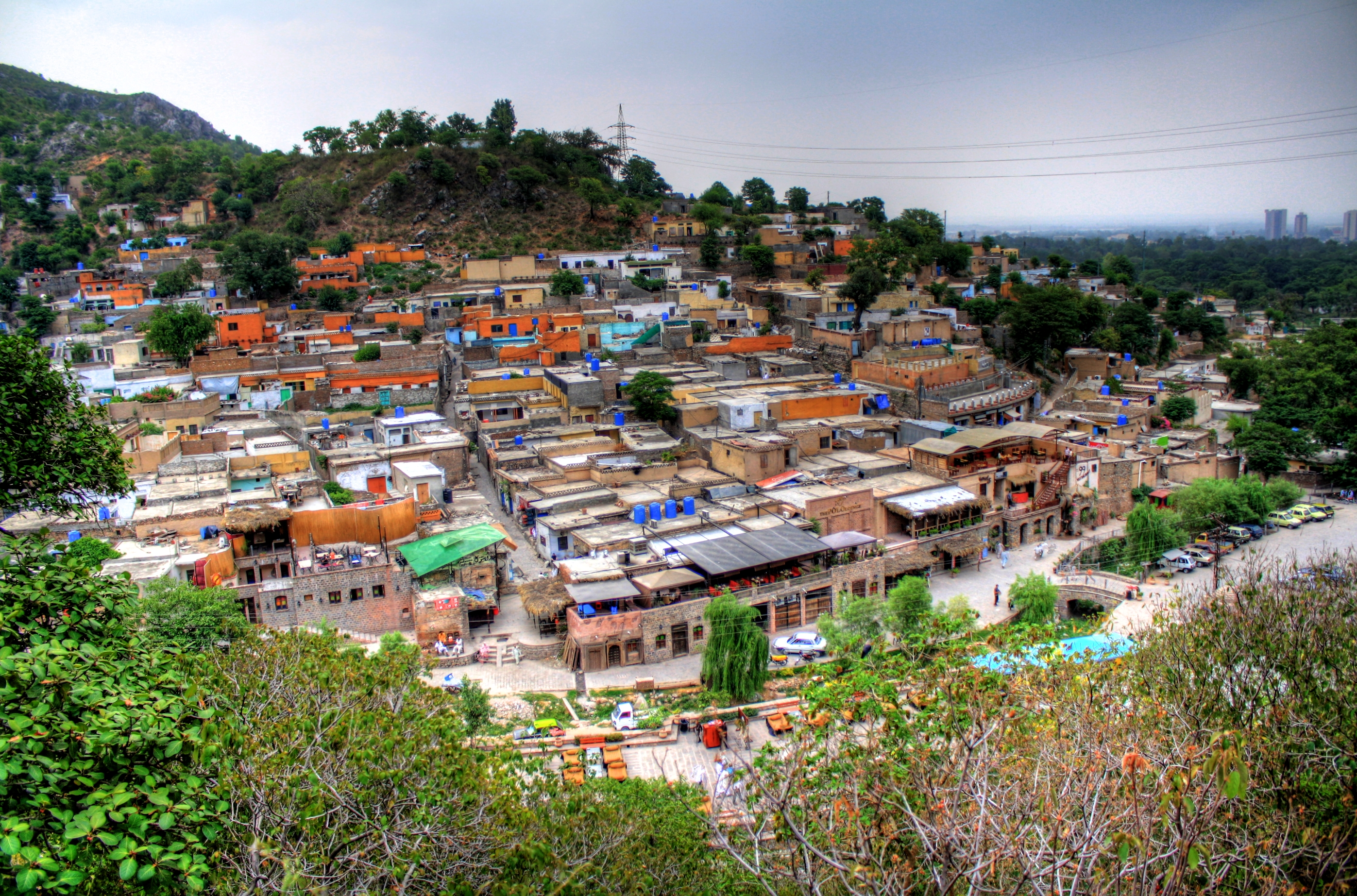 Saidpur Village, Islamabad CT. View of village houses from the hilltop across This is a photo of a monument in Pakistan identified as the ICT-3